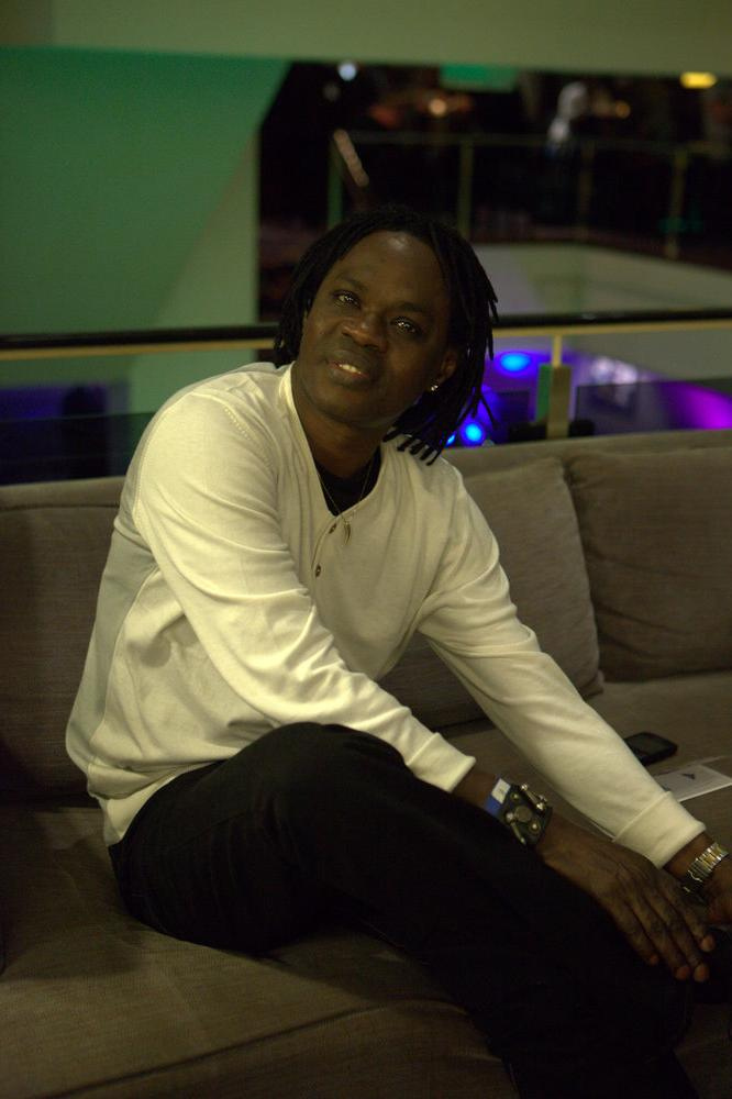 Senegalese vocalist Baaba Maal in 2011